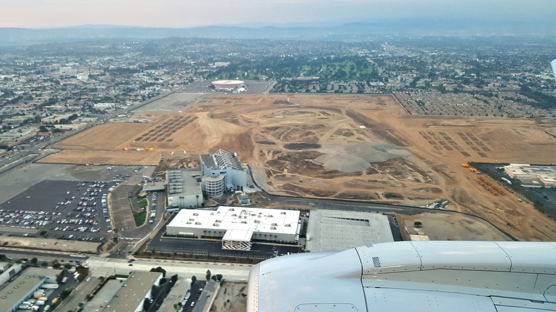 Photo taken from plane while returning to LA from meetings with contractors for LA Rams Inglewood Stadium